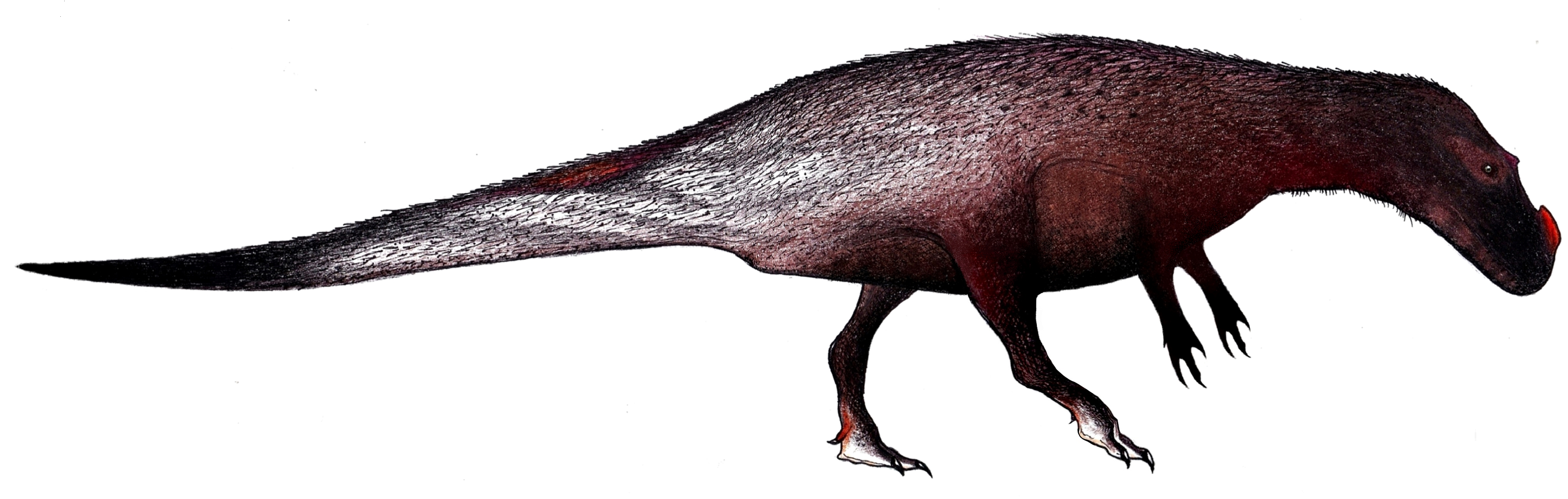 Restoration